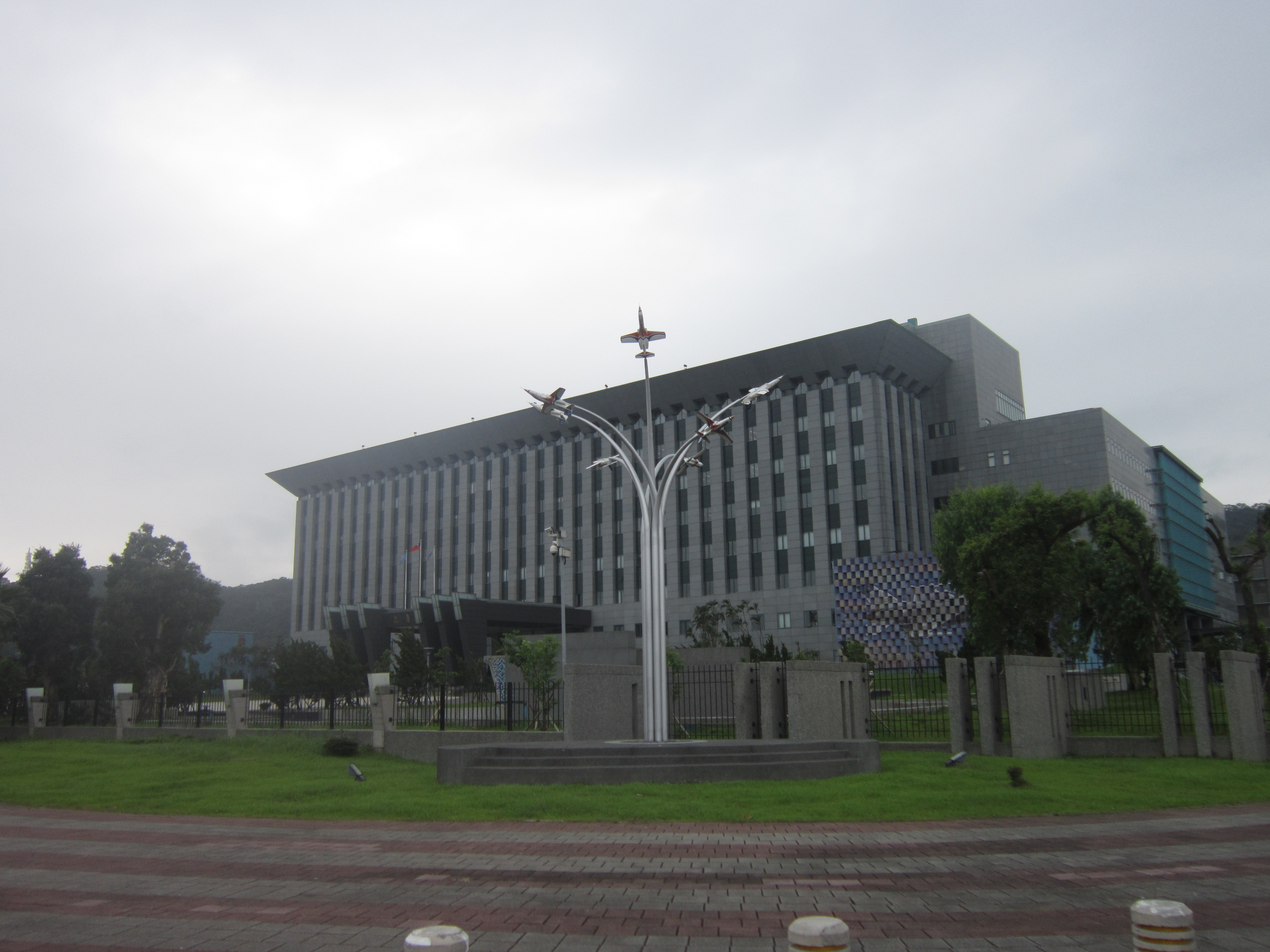 Air Force Commands Headquarters, Ministry of National Defense, Republic of China.